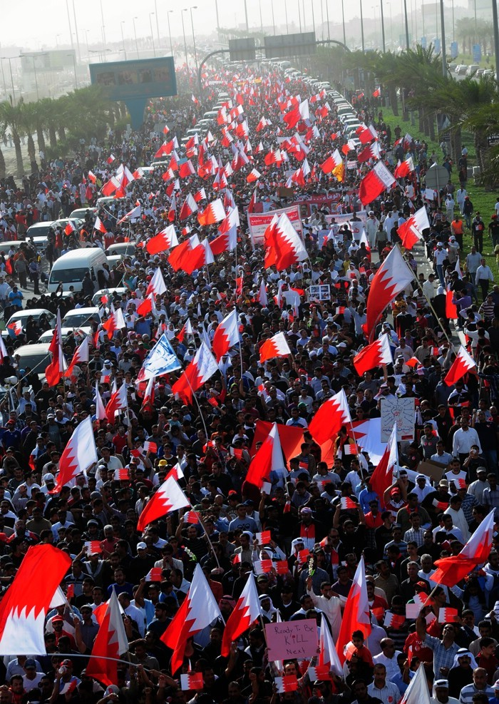 Four Hundreds of thousands of Bahrainis taking part in march of loyalty to martyrs